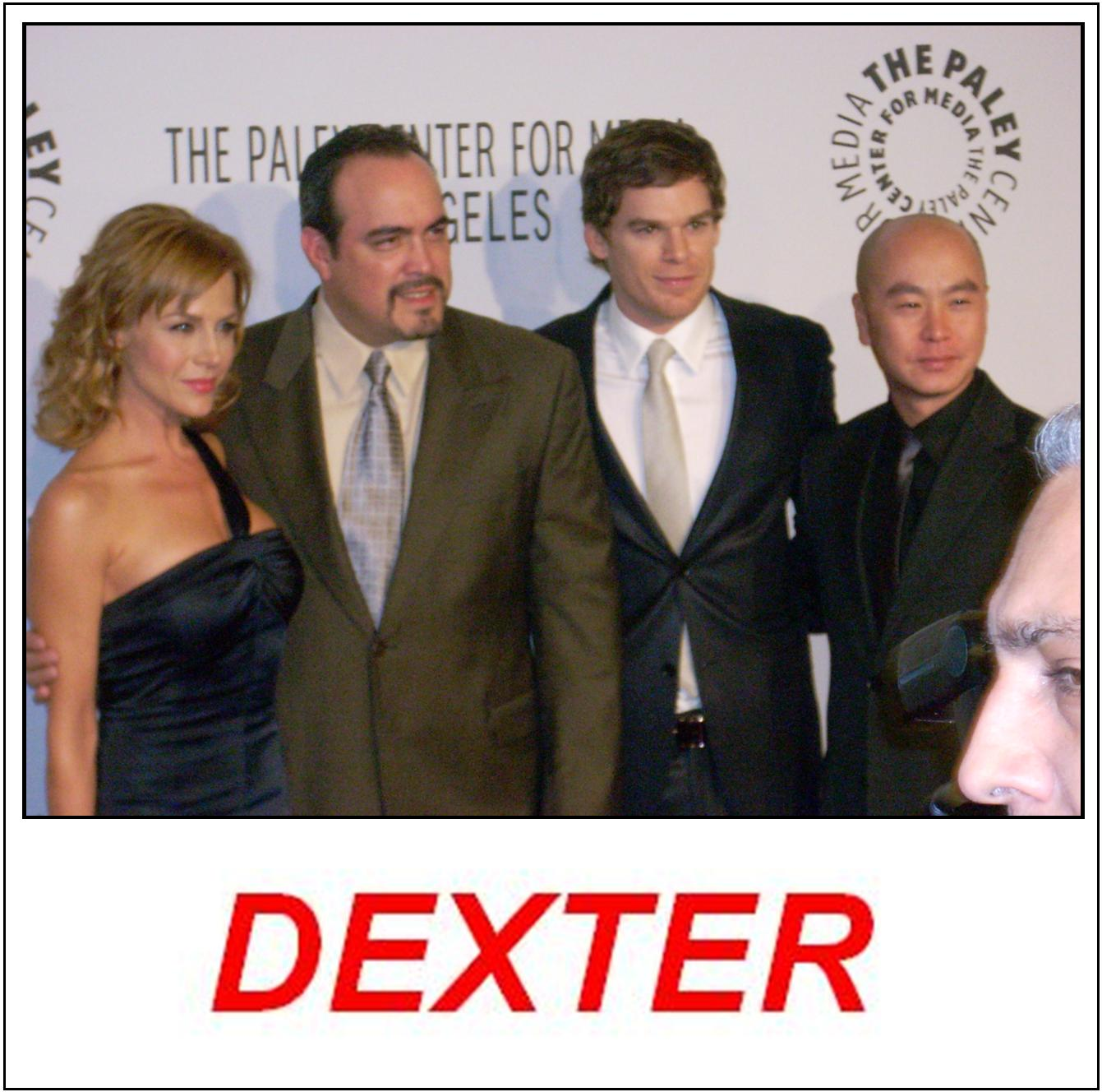 Julie Benz, David Zayas, Michael C. Hall, C.S. Lee at the Paley Center for Media Gala Honoring Showtime Networks.